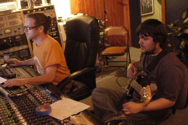 Engineer Andy Sharp and Sean Crooks at Music Lane Studio during sessions for All Haunt's Sound, February 2008.